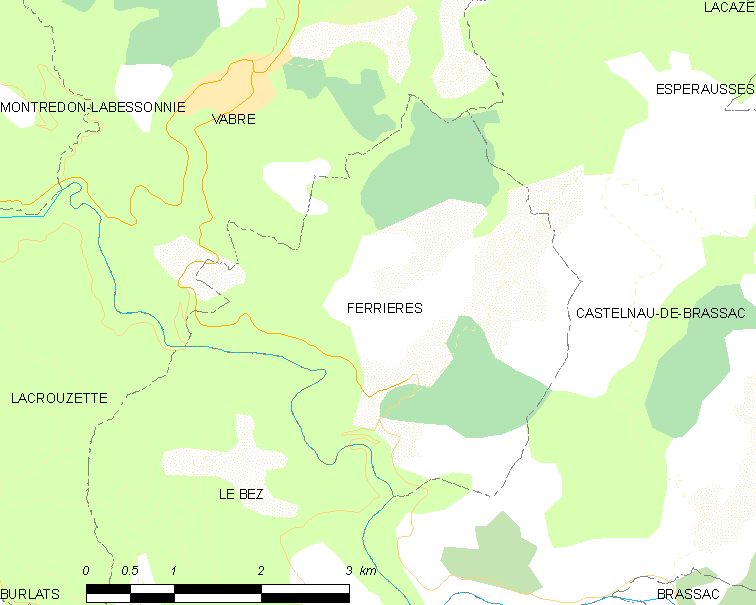 Map commune FR insee code 81091.png - Ferrières (Tarn)